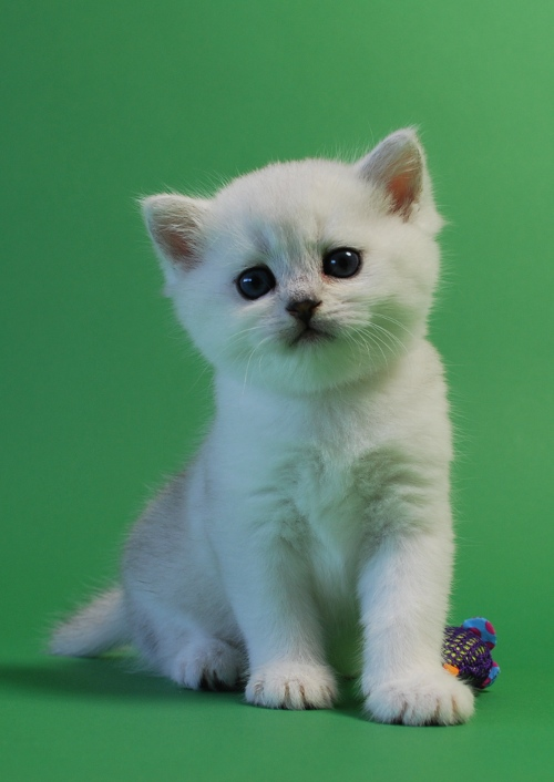 British shorthair kitten. El Desdichado de Zabarah.